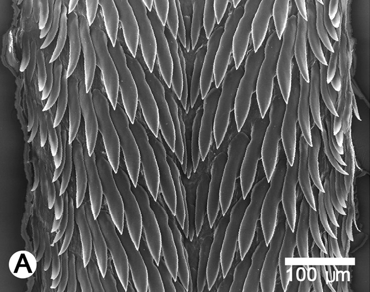 SEM photo of radula of Perrottetia dermapyrrhosa (paratype CUMZ 5002). Photo taken by JEOL JSM-5410 LV scanning electron microscope.